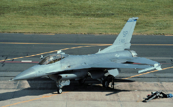 F-16C Block 40B of the 52nd Tactical Fighter Wing - Spangdahlem Air Base Germany.